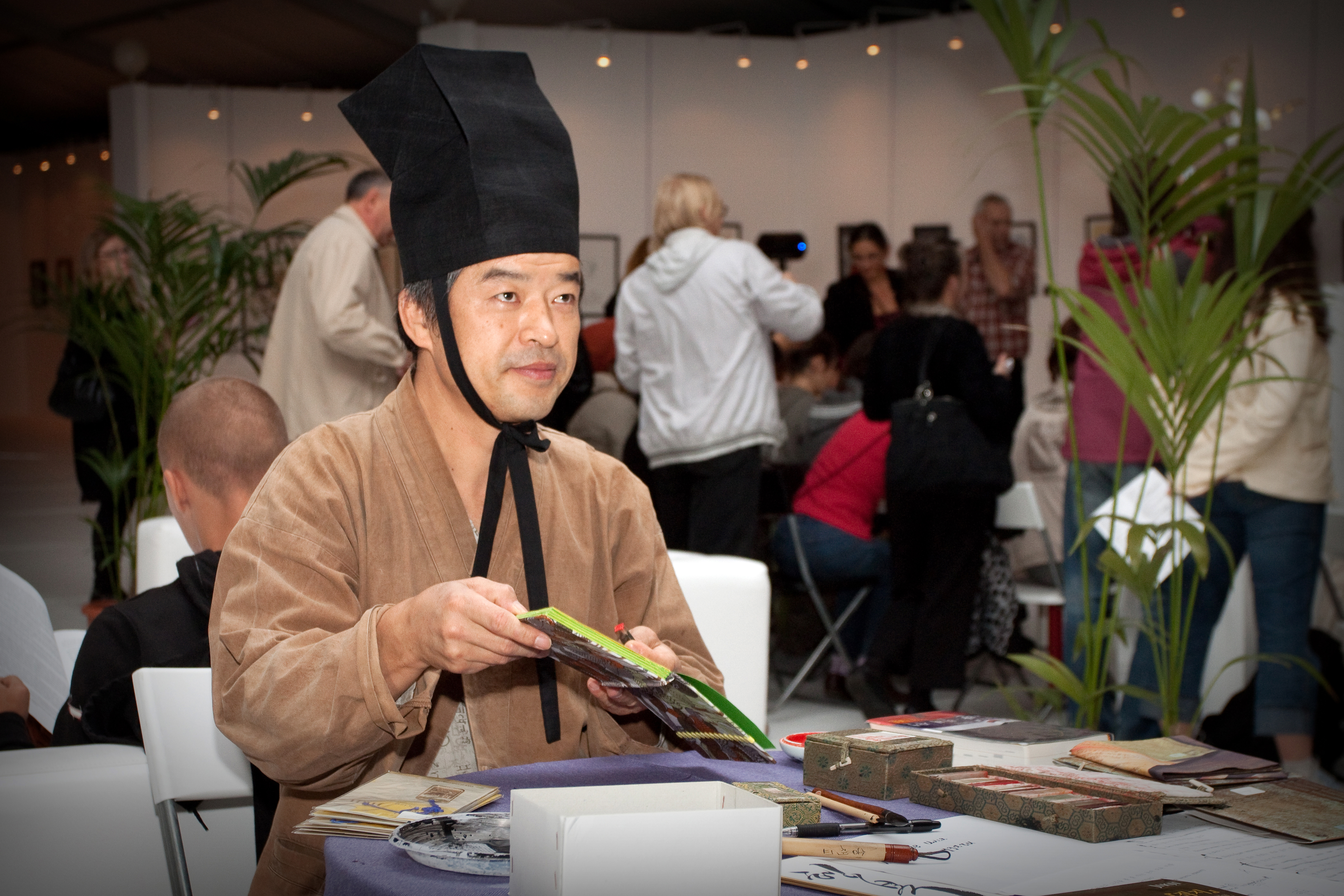 the photo is taken during the International Exhibition of calligraphy in Velikiy Novgorod